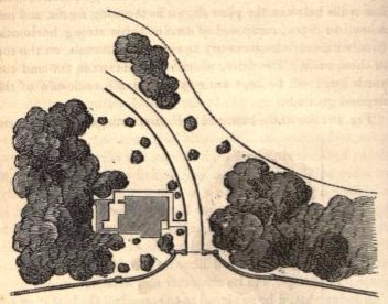 Garden plan for Scarthwaite, Caton, Lancashire, England. Design by Edward Kemp for Adam Hodgson. From p. 336 of Kemp's How to Lay Out a Garden (1858).